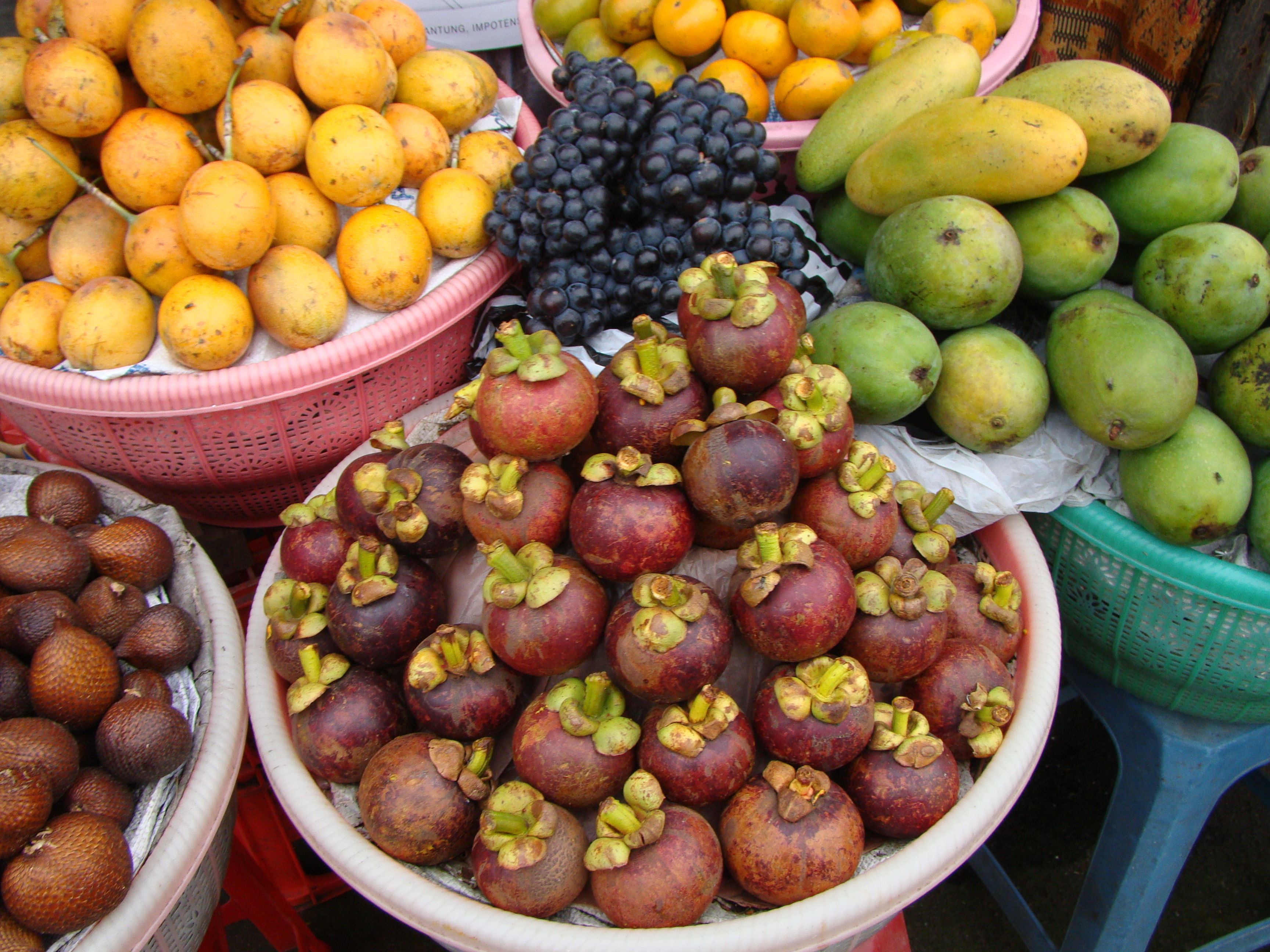 Mangosteen, passion fruits, mangoes in Bali